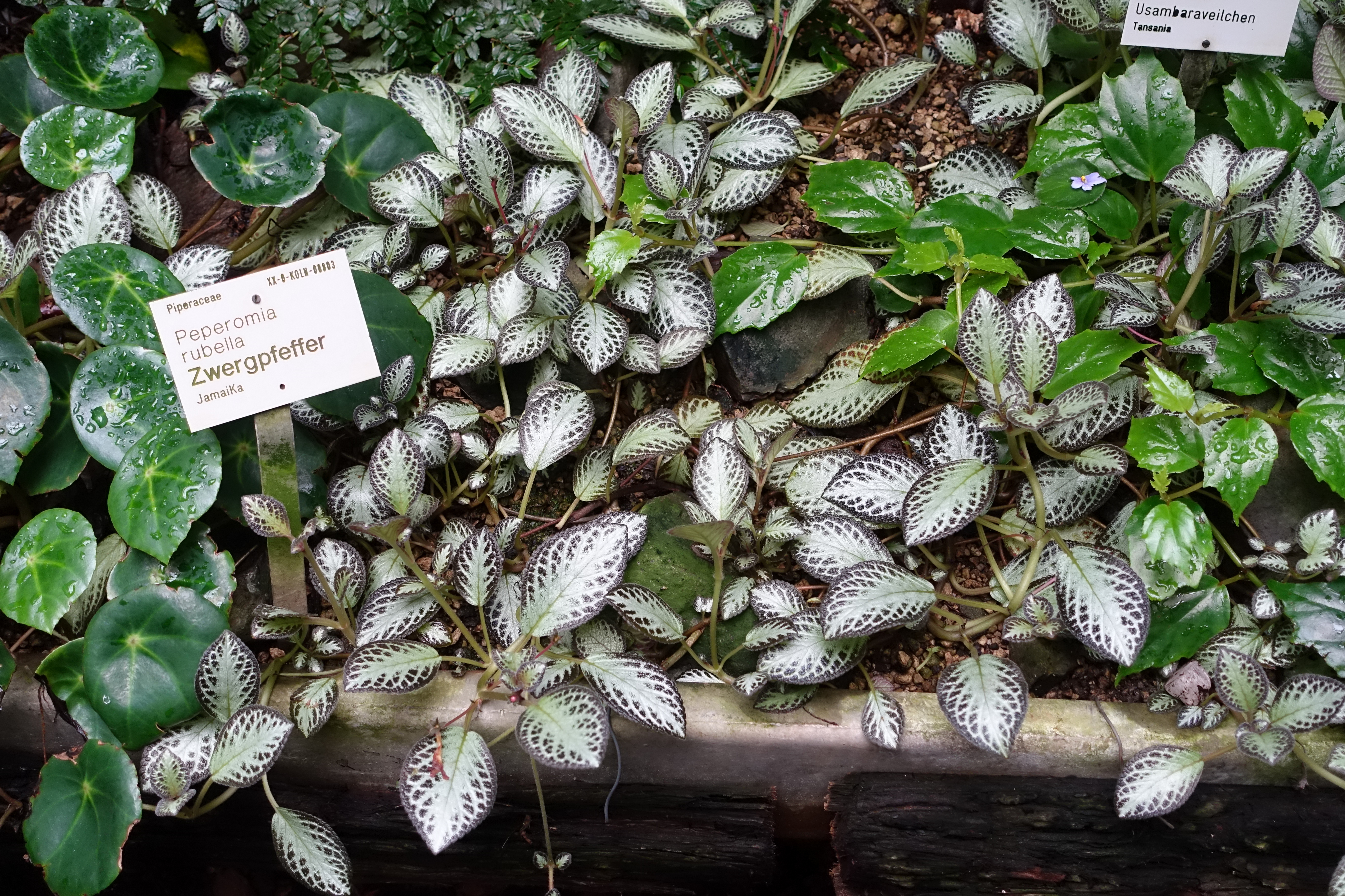 Botanical specimen in the Flora und Botanischer Garten Köln - Cologne, Germany.